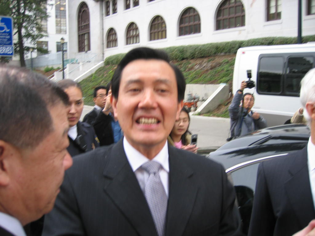 Taken by User:Jiang at UC Berkeley on 2006-03-24.